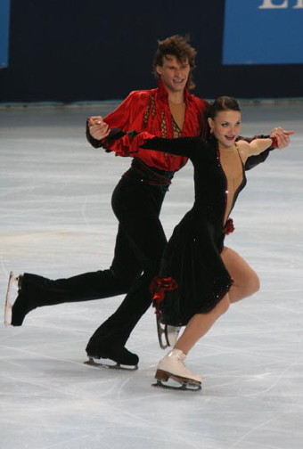 2008 Trophée Eric Bompard Cachemire; Ekaterina Rubleva and Ivan Shefer; FD